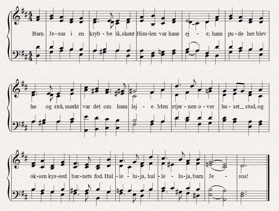 Tune and first stanza of the Danish hymn 'Barn Jesus i en krybbe lå'. Lyrics by H. C. Andersen, music by Niels W. Gade. The file is made with the program Sibelius 6.